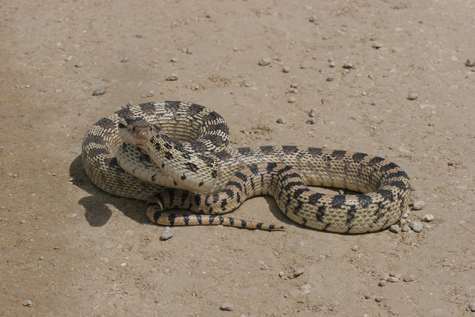 Great Basin Gopher Snake (Pituophis catenifer deserticola), Lamoille, Nevada, USA